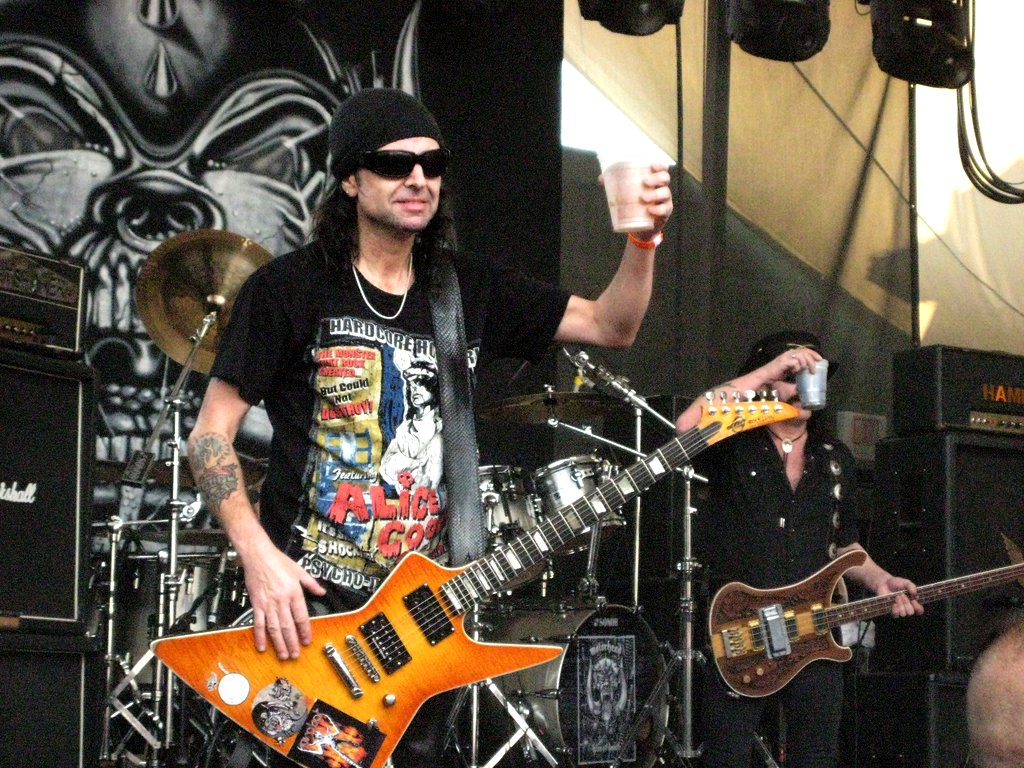 Phil Campbell live drinking